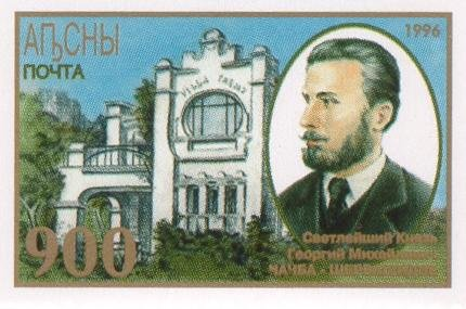 Autonomous Republic of Abkhazia. Giorgi Shervashidze stamp.